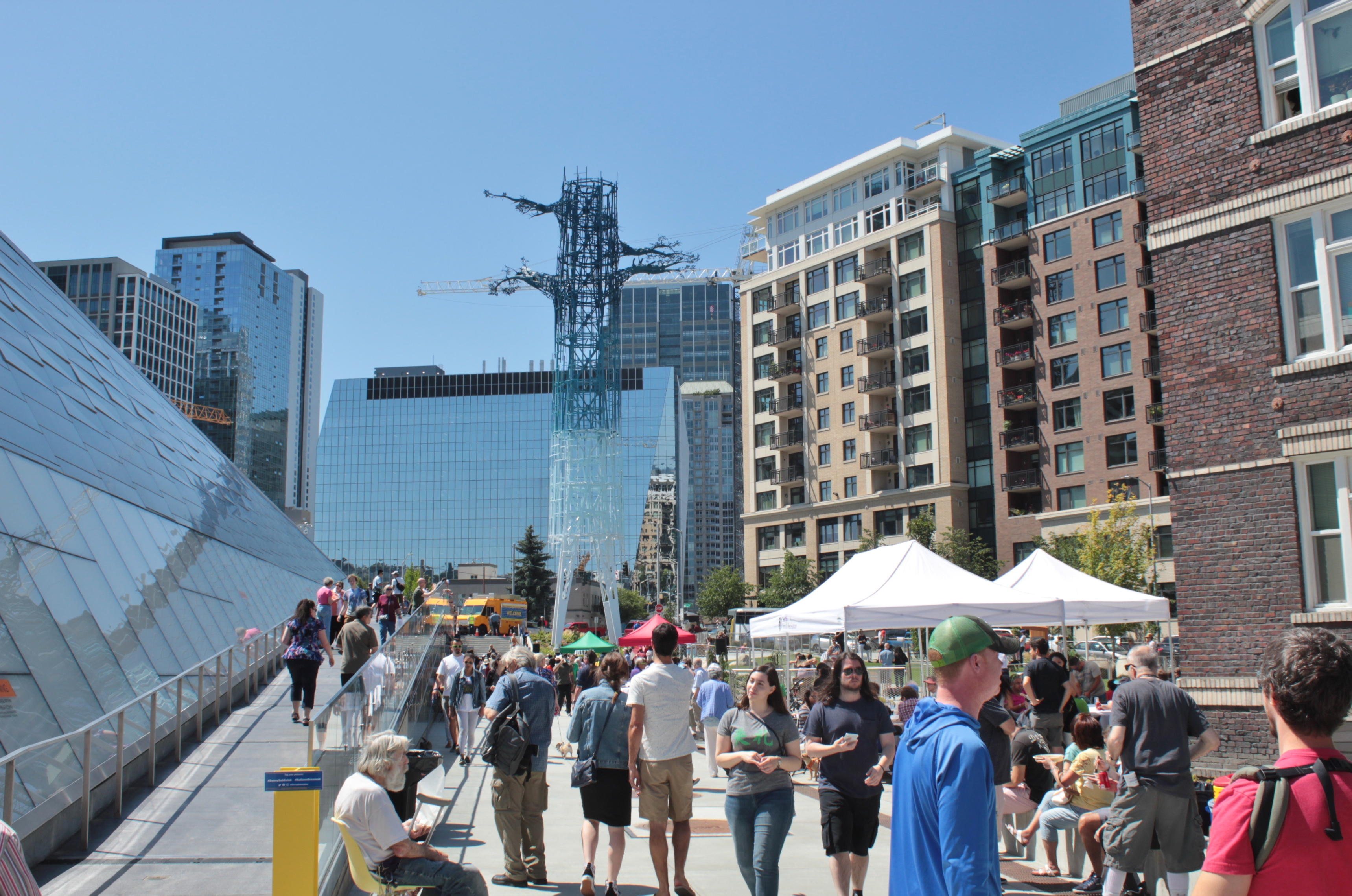 The Denny Substation, a new electrical substation and community center in Seattle, seen on its opening day (July 20, 2019).